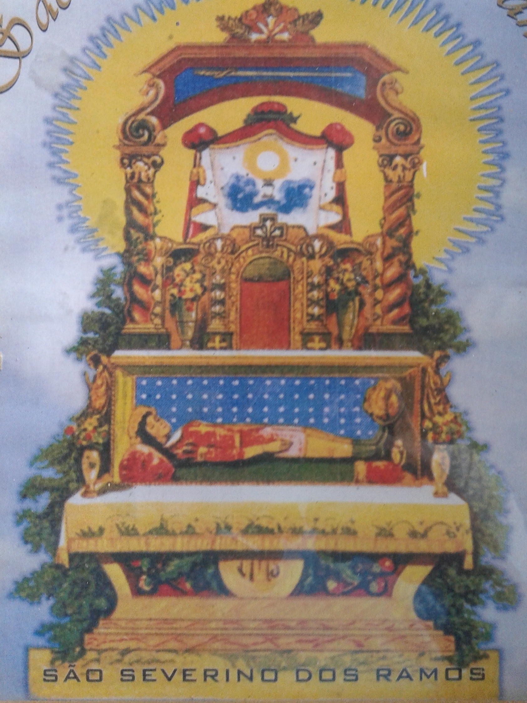 Holy card of São Severino dos Ramos